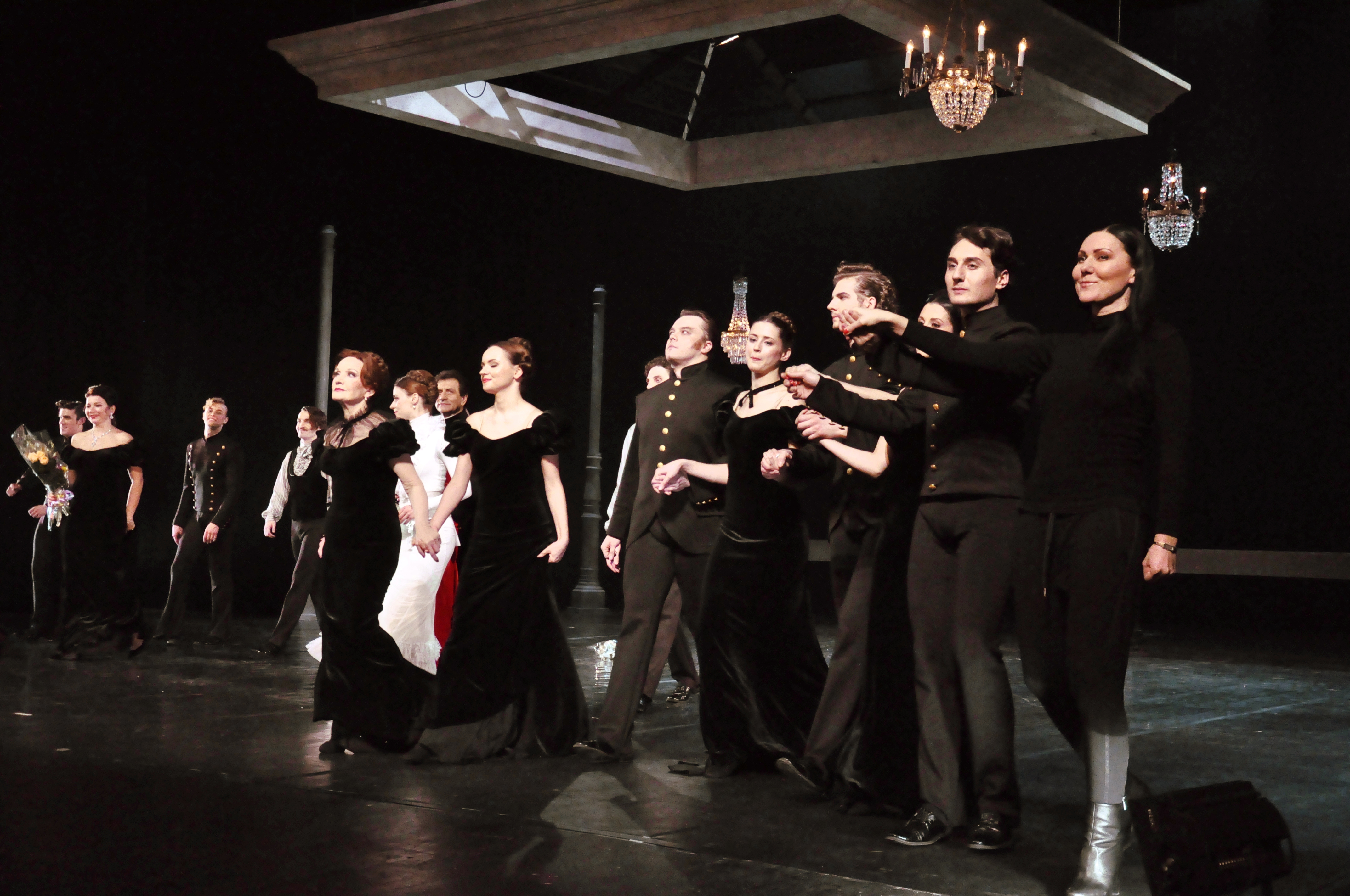 "Anna Karenina", Moscow Vakhtangov Theatre, December 2012